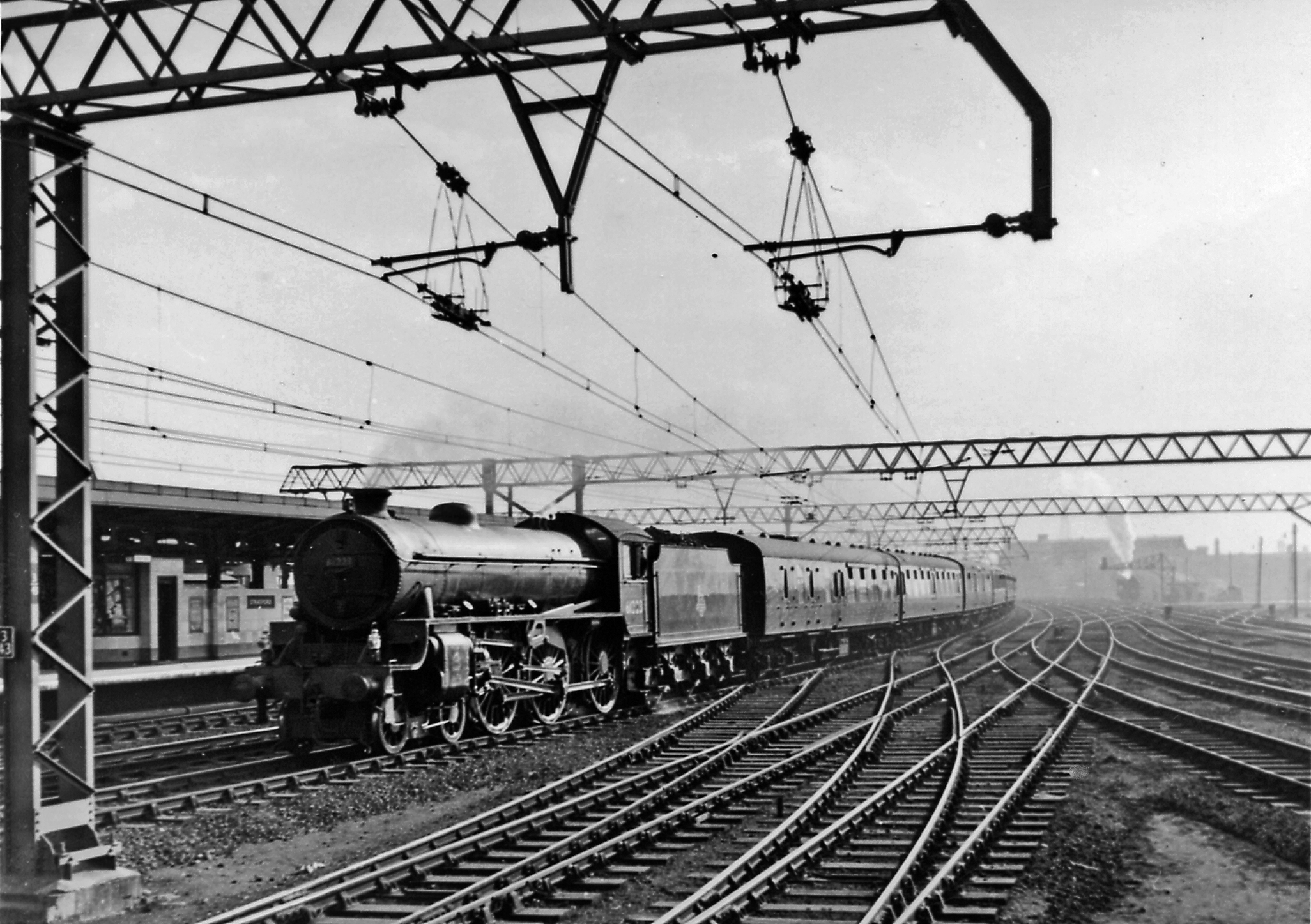 Liverpool Street - Yarmouth/Lowestoft express passing Stratford. View SW, towards London from the Loughton branch platforms: ex-GE main line. The 15.33 Liverpool St. to Yarmouth (South Town) and Lowestoft (Central) express is passing through on the Fast line, headed by Thompson B1 4-6-0 No. 61223 (built 8/47, withrawn 1/66). (Cf. TQ3884 : The Down 'Broadsman' passes Stratford Station).